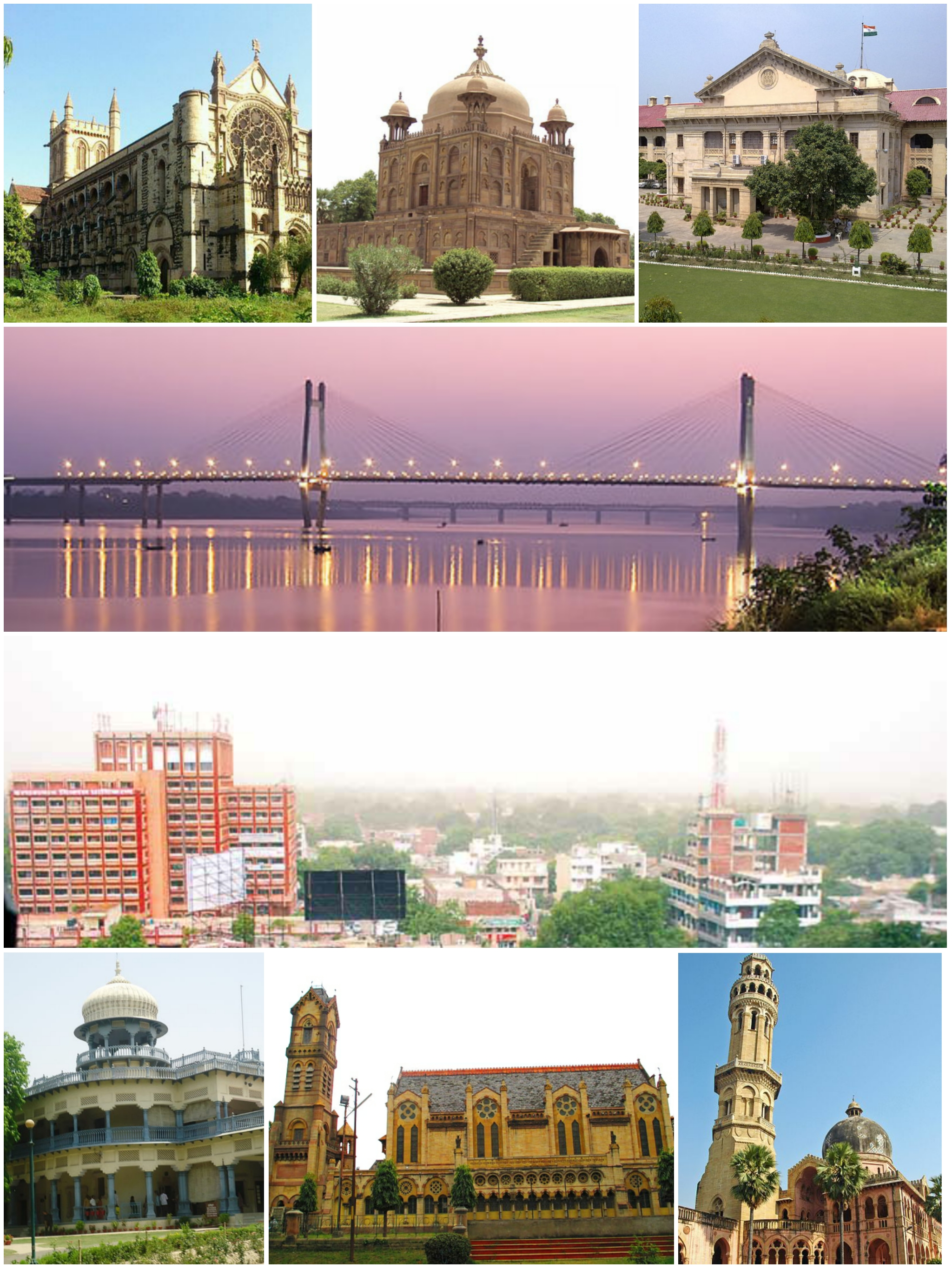 This is a collage of the landmarks of the city of Allahabad. Clockwise from top left: All Saints Cathedral, Khusro Bagh, Allahabad High Court, New Yamuna Bridge near Sangam, Skyline of Civil Lines, Muir Central College of Allahabad University, Thornhill Mayne Memorial at Alfred Park and Anand Bhavan.